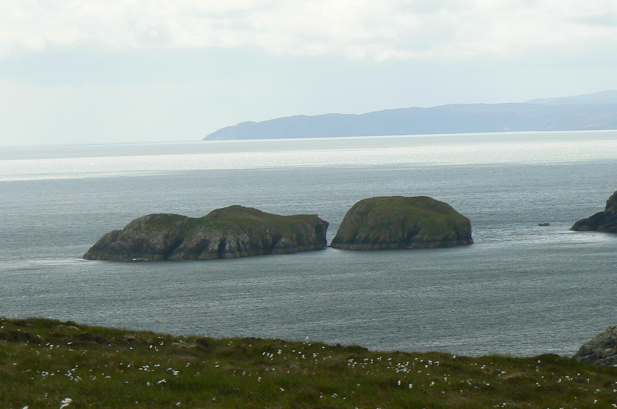 Bayble Island, from the aircraft beacon in Upper Bayble, with the North Lochs coastline in the background.